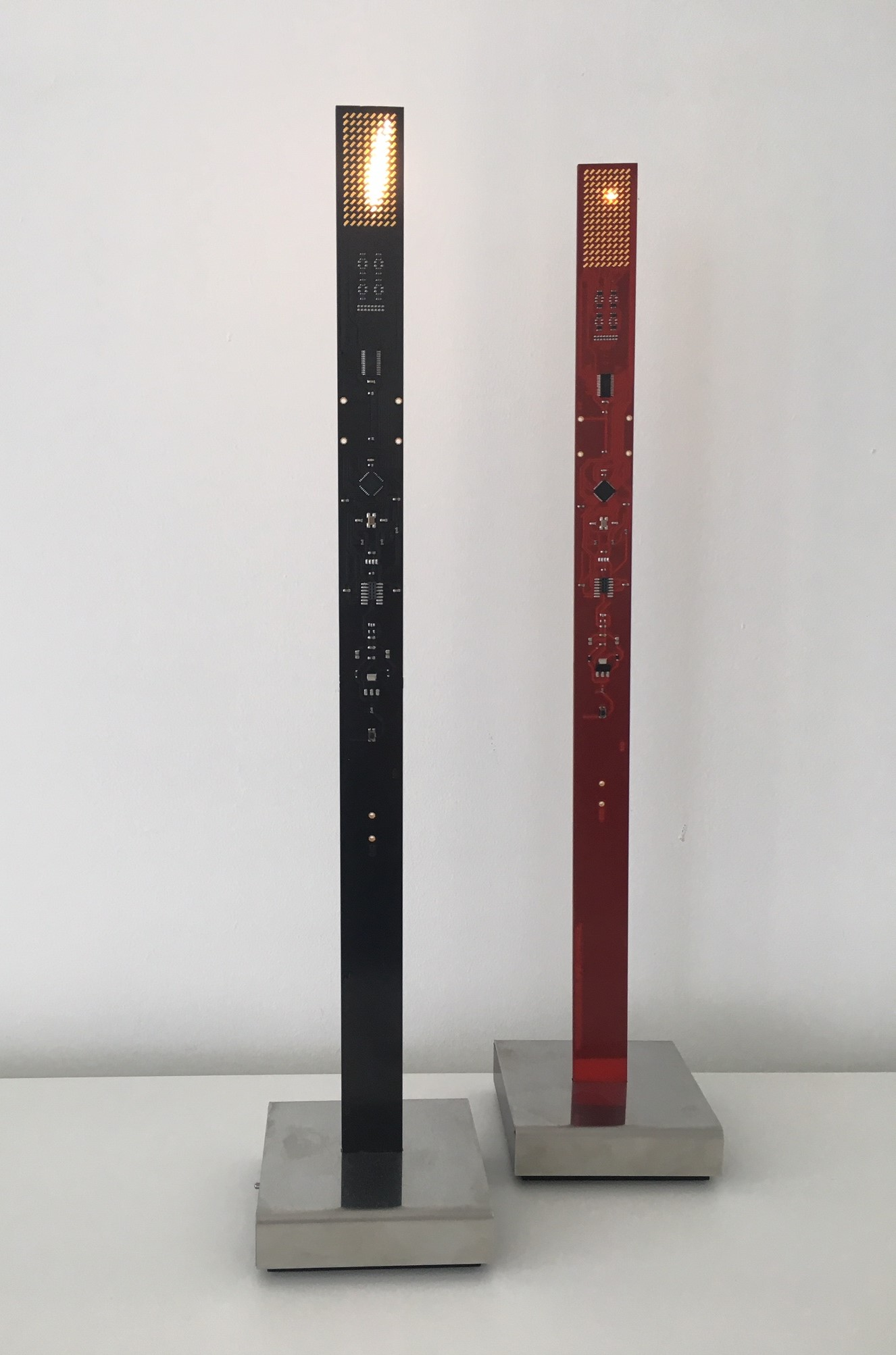 My New Flame